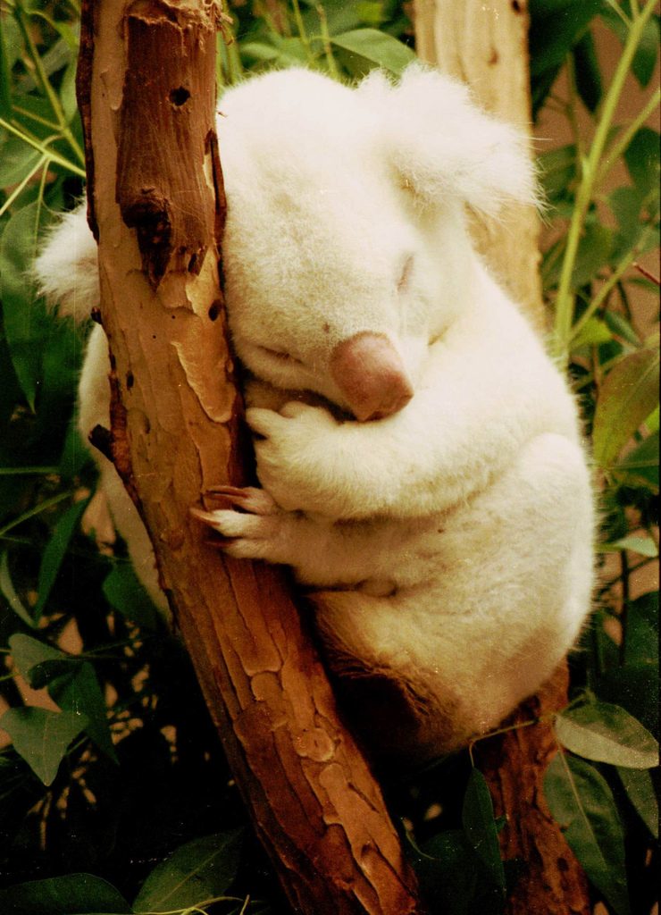 Albino Koala at San Diego Zoo.